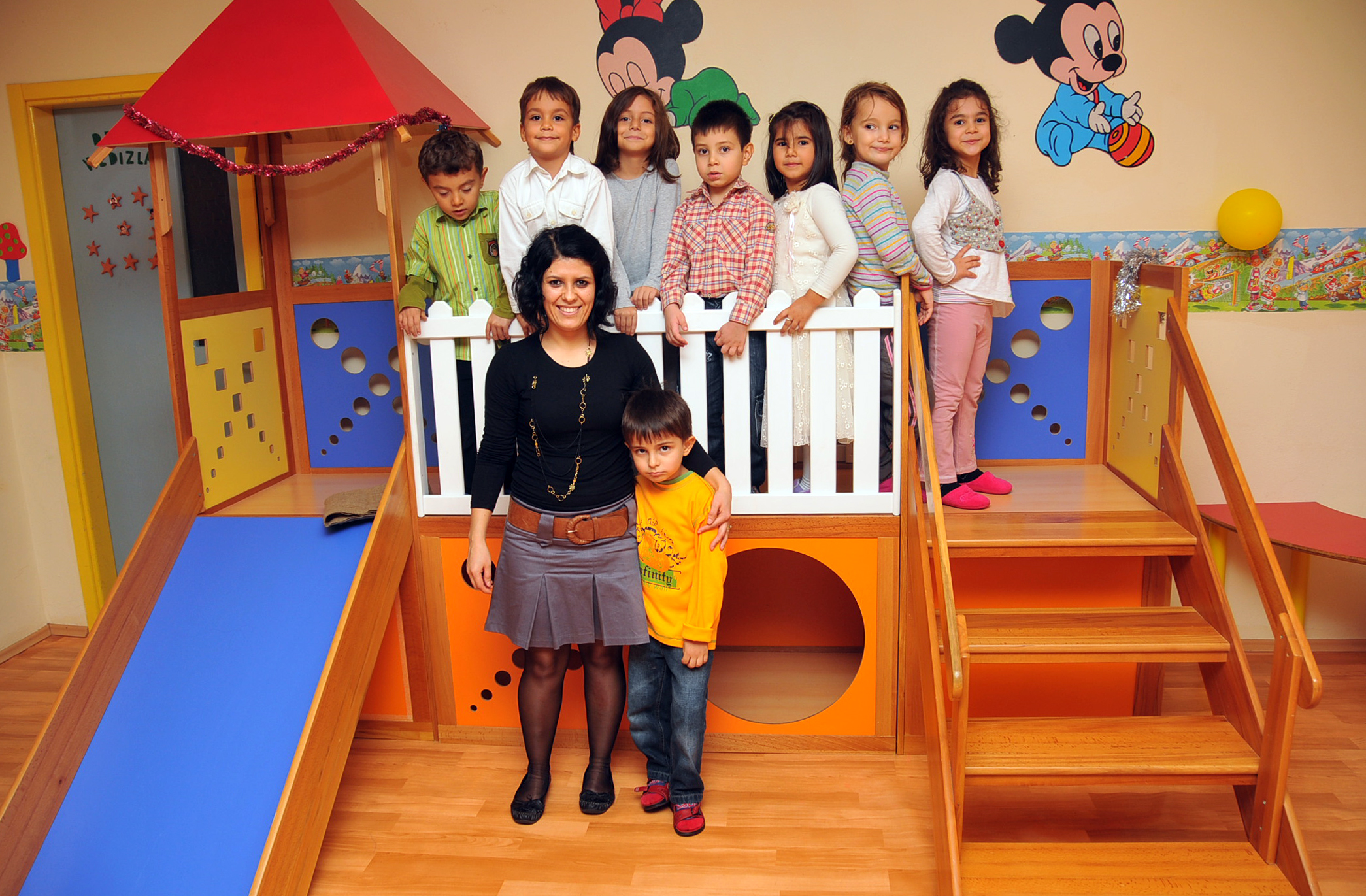 Kindergarten students in Turkey